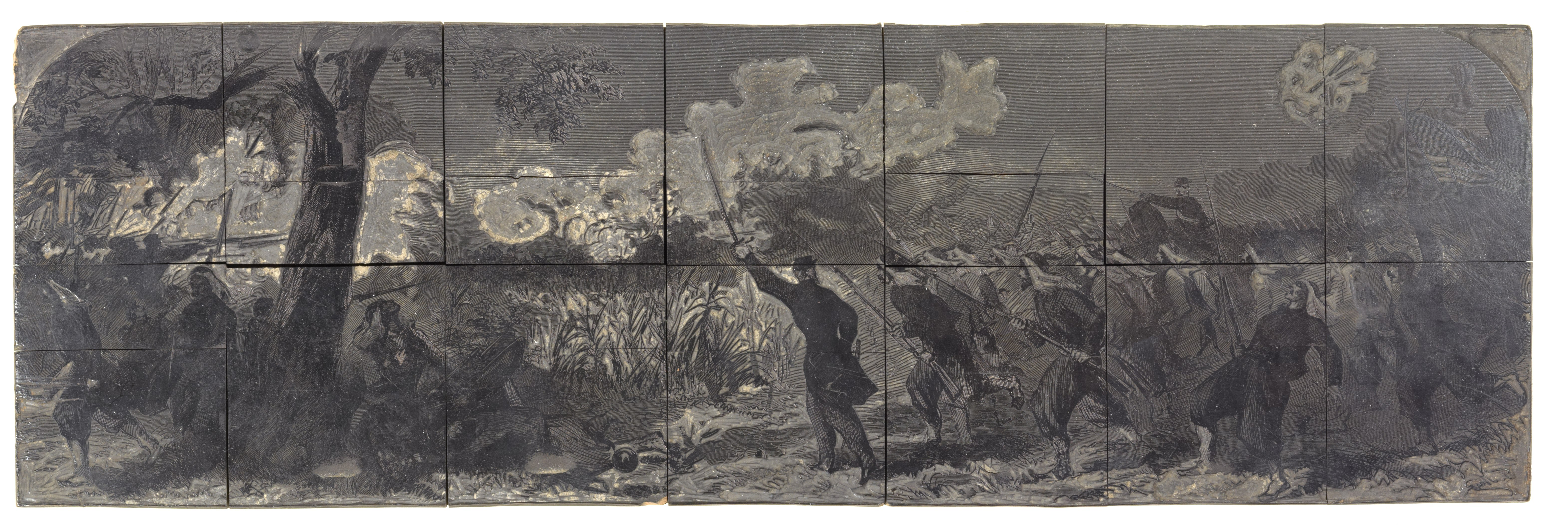 Title: Battle of Big Bethel Abstract/medium: 1 wood block.